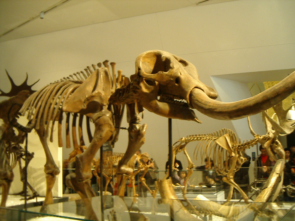 American mastodon (Mammut americanum) fossil at ROM